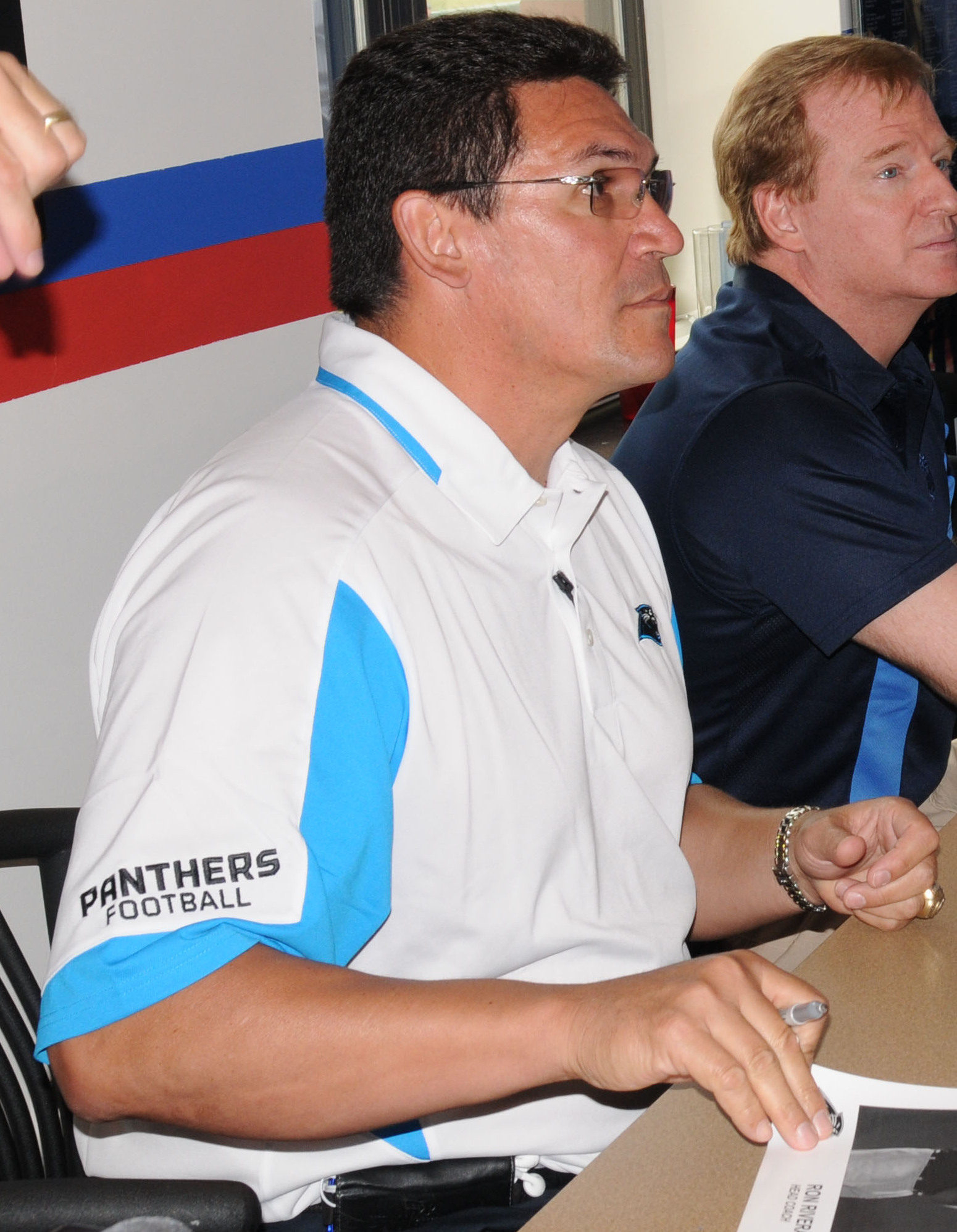 Carolina Panthers head coach Ron Rivera, left, NFL Commissioner Roger Goodell and former Carolina Panthers player Mike Rucker sign autographs and photos for Soldiers at the 1st Brigade Combat Team dining facility Friday during their visit to the post.